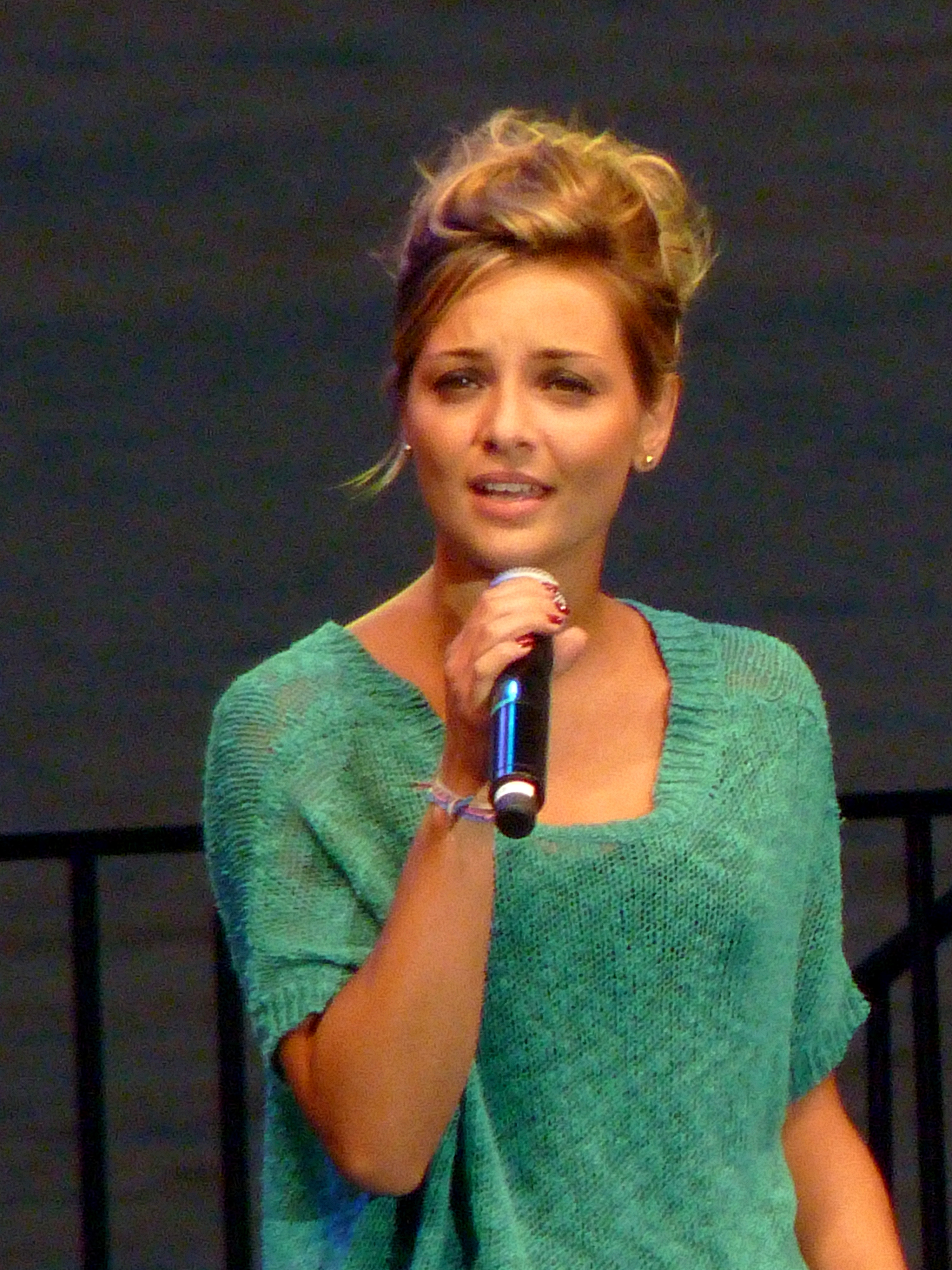 Priscilla Betti performing at La Nuit des Hits of Juan-les-Pins for Enfant Star & Match association.